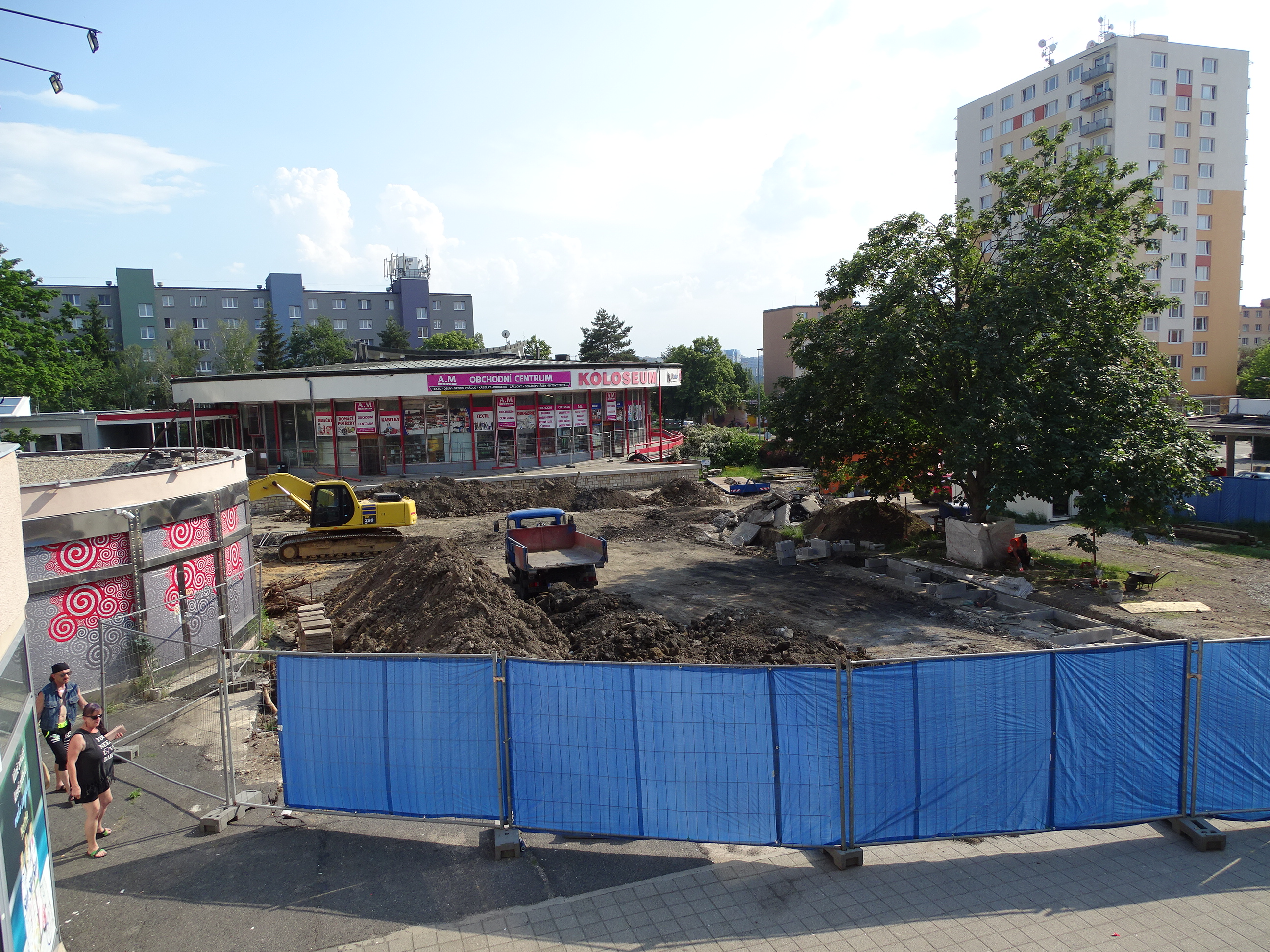 Prague-Záběhlice, the Czech Republic. Construction works in front of the Cíl shopping centre.